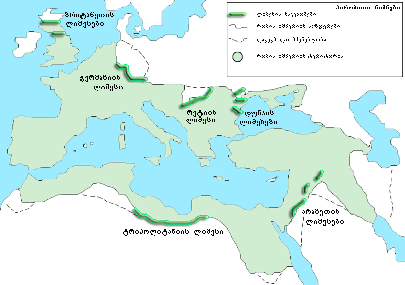 Author: Daniel Adams (me) I created this myself and release it to the public domain.